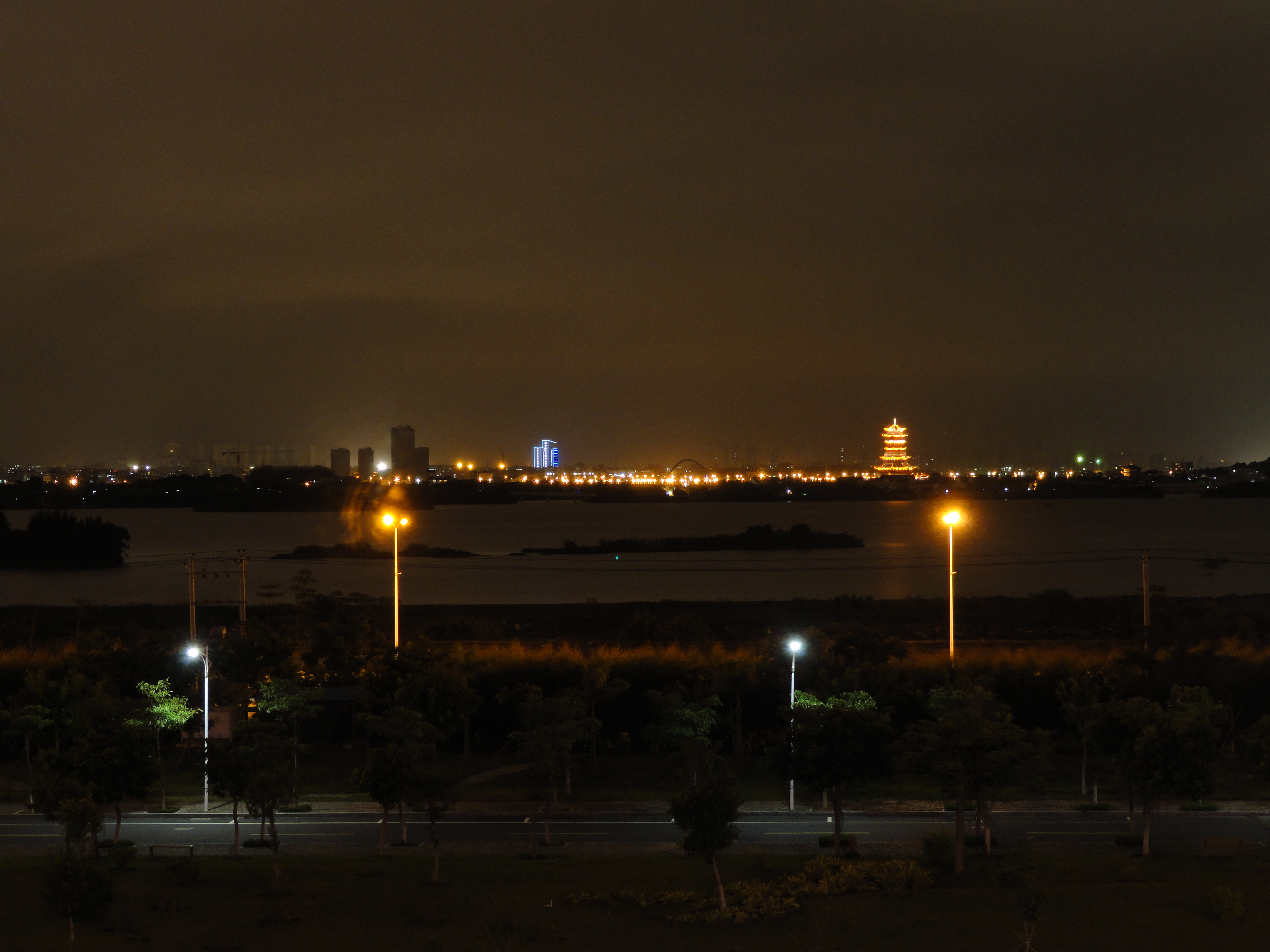 The photo of the Garden Expro Garden in Xiamen taken in Jimei University.